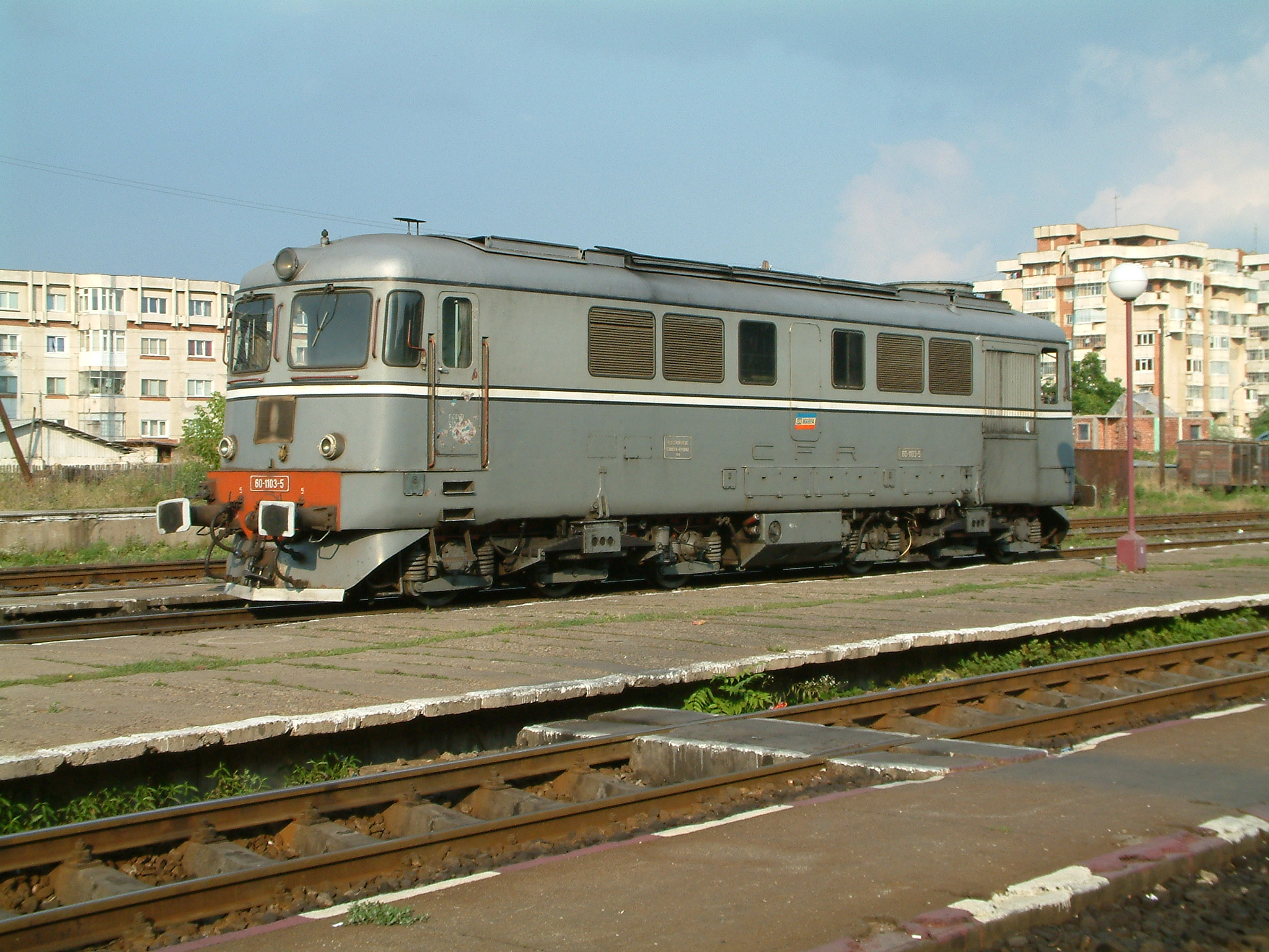 CFR locomotive 60-1103-5 at Pitesti